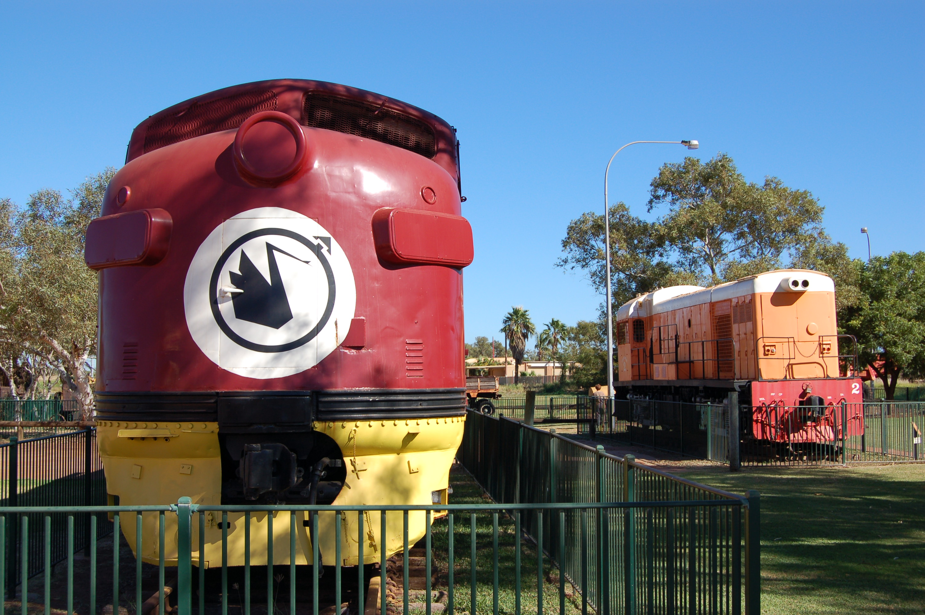 A general view of the Don Rhodes Mining and Transport Museum, Wilson Street, Port Hedland, Western Australia. At left is the museum's ex-Western Pacific Railroad, ex-Mt Newman Mining EMD F7 Bo-Bo diesel-electric loco no. 5451, and at right is the museum's ex-Goldsworthy Mining Ltd English Electric 640kW Bo-Bo diesel-electric loco no. 2.